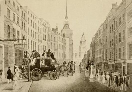 Coach emerging from the "Belle Sauvage" yard into Ludgate Hill.